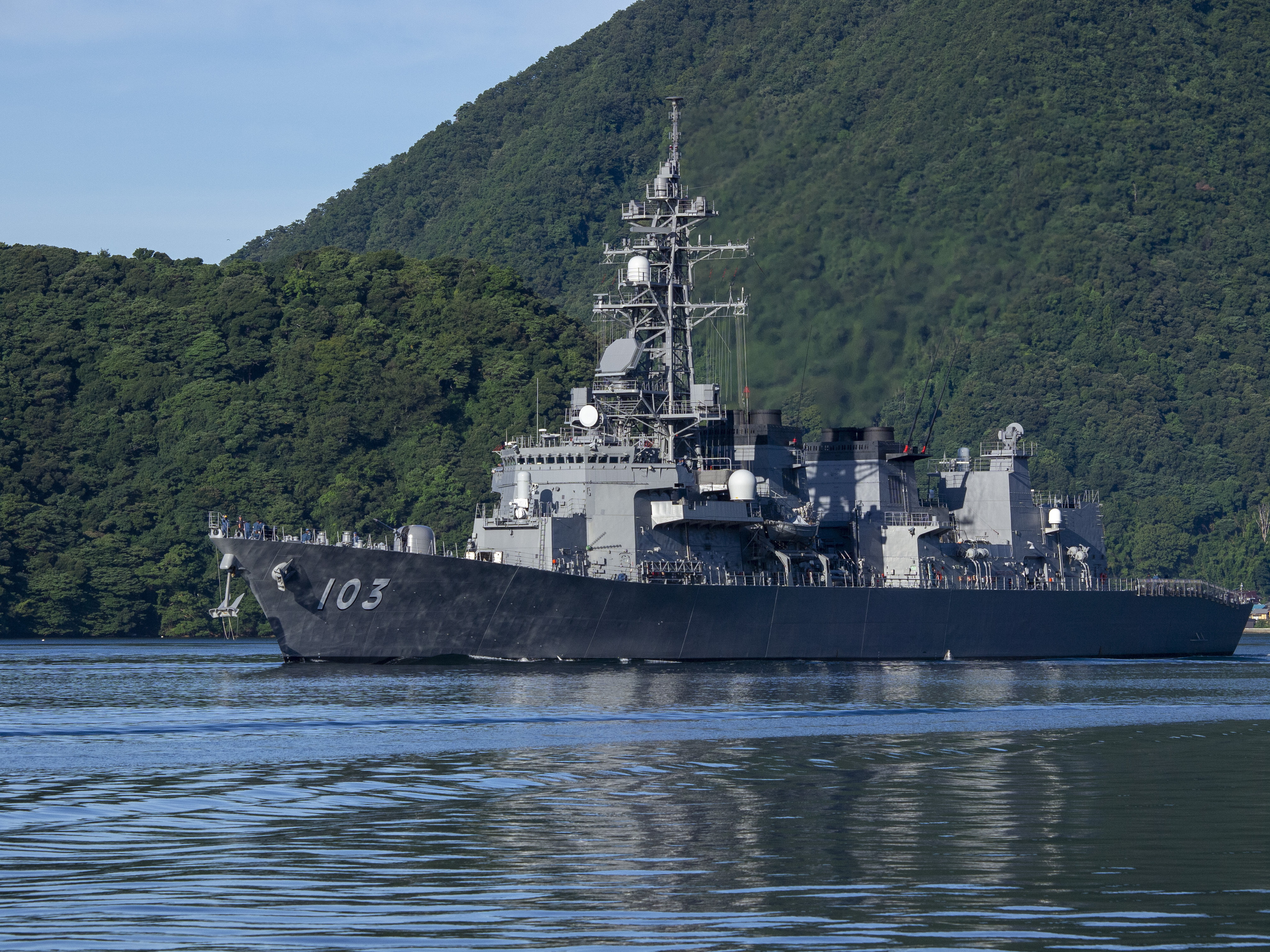 Destroyer JS "Yu^dachi" on Maizuru Bay